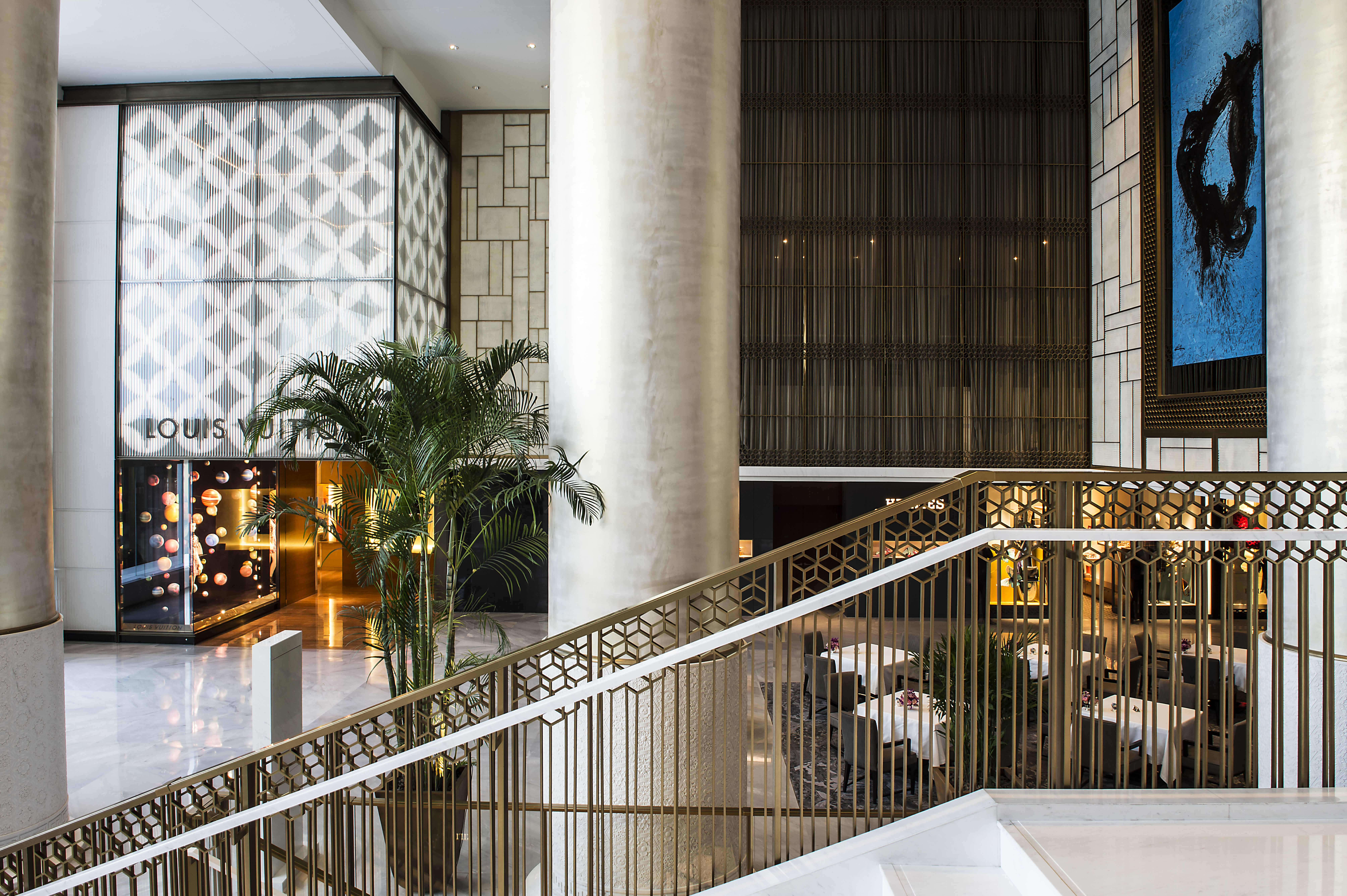 Shopping Arcade at The Peninsula Beijing